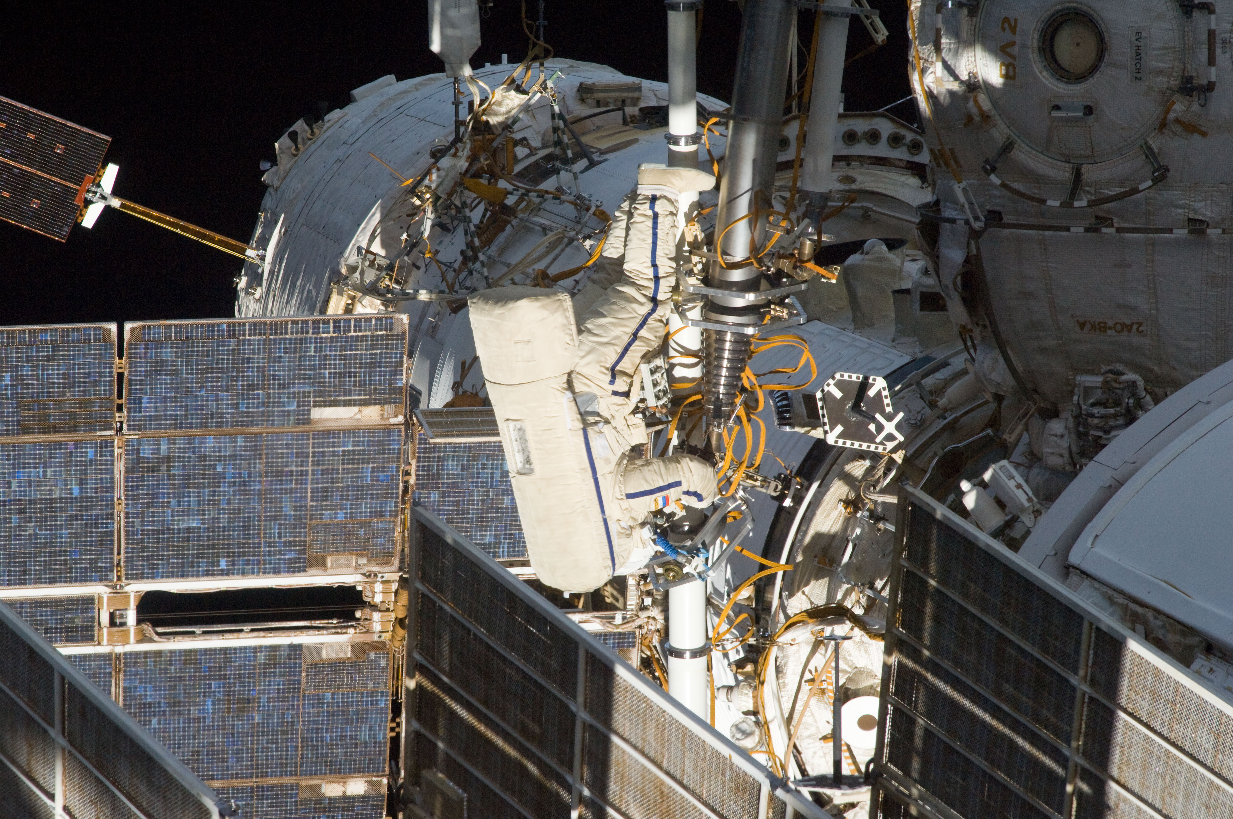 Russian cosmonaut Yuri Malenchenko, Expedition 32 flight engineer, participates in a session of extravehicular activity (EVA) to continue outfitting the International Space Station. During the five-hour, 51-minute spacewalk, Malenchenko and Russian cosmonaut Gennady Padalka (out of frame), commander, moved the Strela-2 cargo boom from the Pirs docking compartment to the Zarya module to prepare Pirs for its eventual replacement with a new Russian multipurpose laboratory module. The two spacewalking cosmonauts also installed micrometeoroid debris shields on the exterior of the Zvezda service module and deployed a small science satellite.